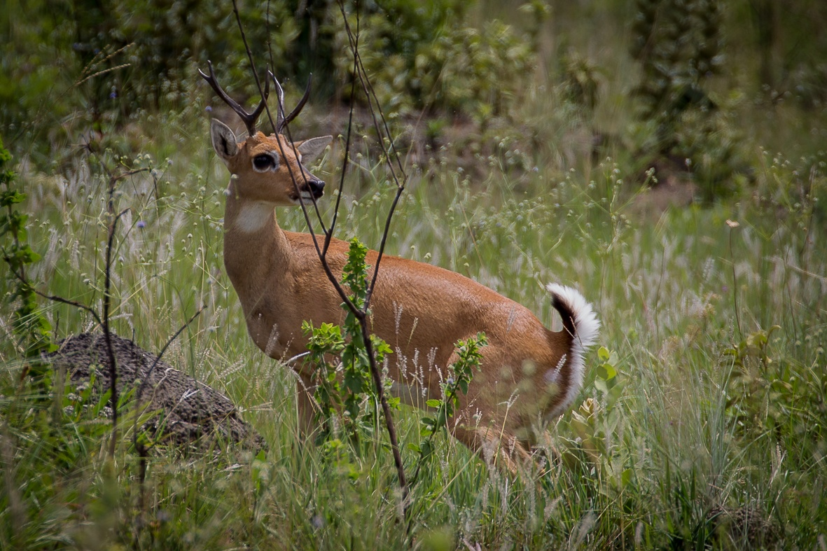 Pampas deer in Serra da Canastra National Park, Brazil.